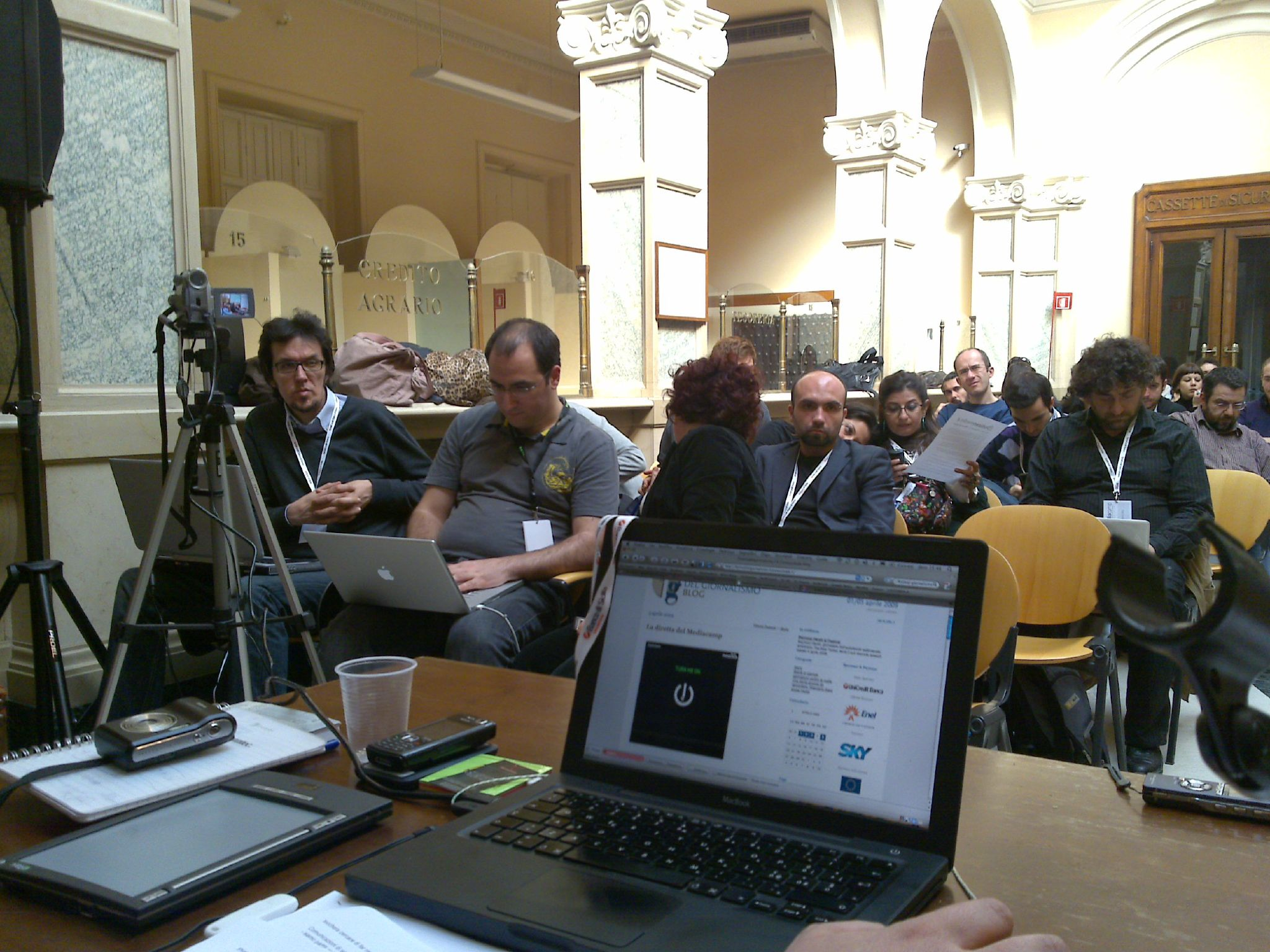 International Journalism Festival: MediaCamp at Perugia, April 2009.